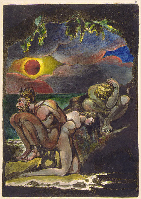 Plate from Visions of the Daughters of Albion, copy G, in the collection of the Houghton Library, Harvard University.